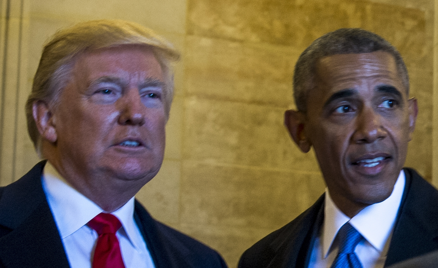 U.S. President Donald J. Trump and Former U.S. President Barack Obama wait to exit the east front steps for the departure ceremony during the 58th Presidential Inauguration in Washington, D.C., Jan. 20, 2017. More than 5,000 military members from across all branches of the armed forces of the United States, including reserve and National Guard components, provided ceremonial support and Defense Support of Civil Authorities during the inaugural period. (DoD photo by U.S. Air Force Staff Sgt. Marianique Santos)